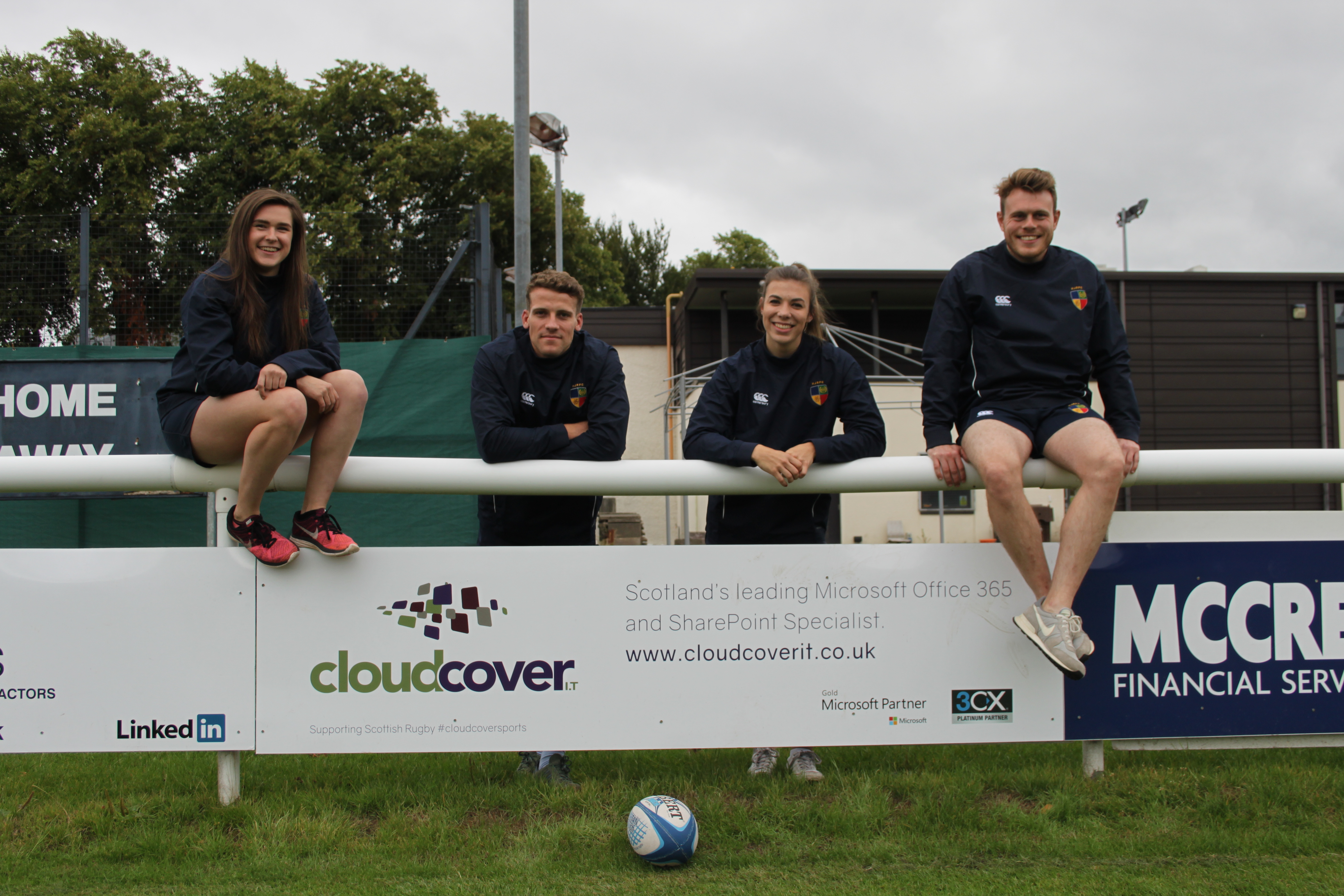 2018-19 Captains at Cloud Cover Sponsors Board